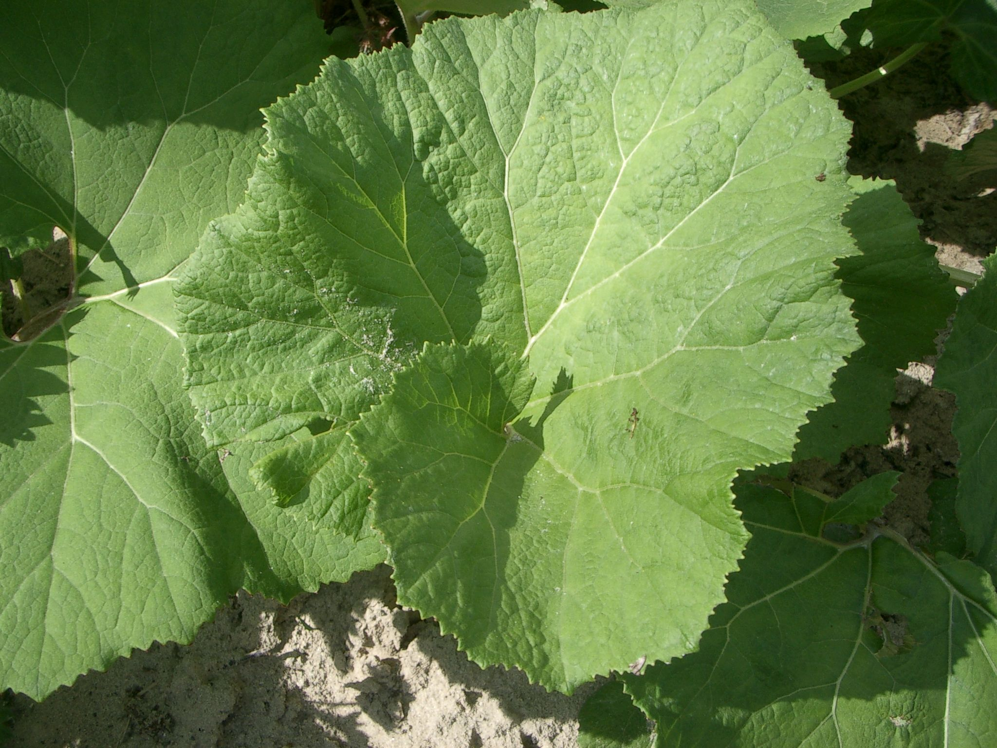 Description: Petasites hybridus-Leaf